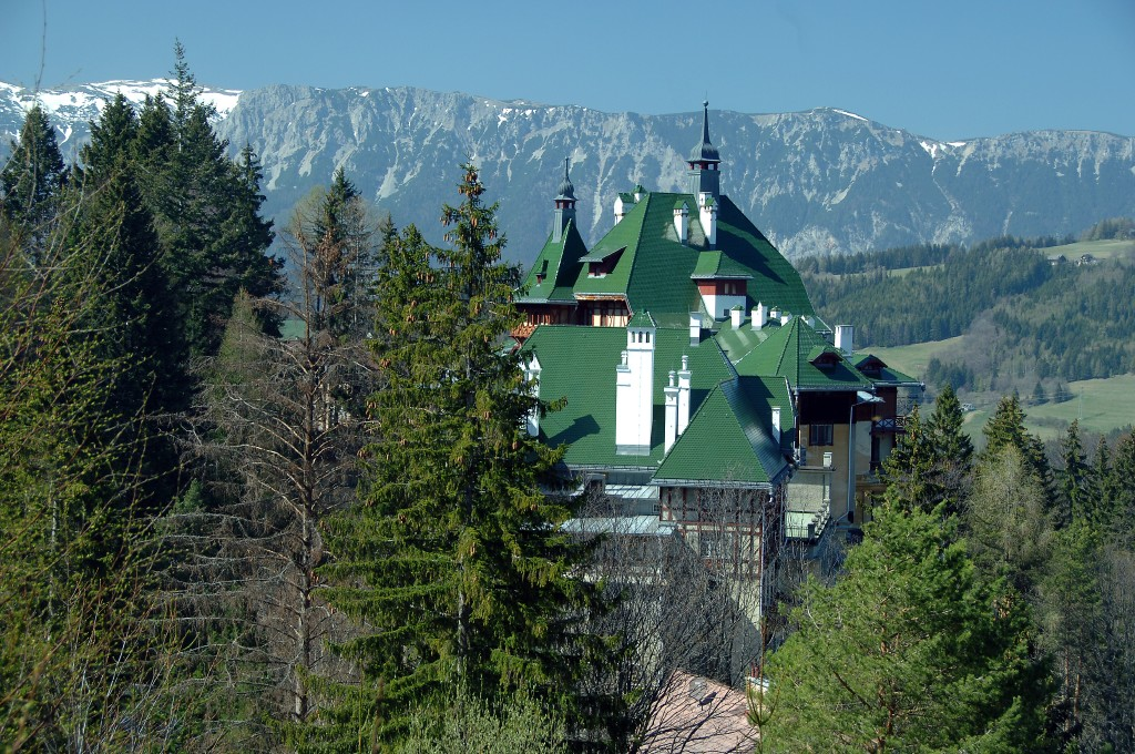 Südbahnhotel Semmering, selfmade photograph from April 15 2007.